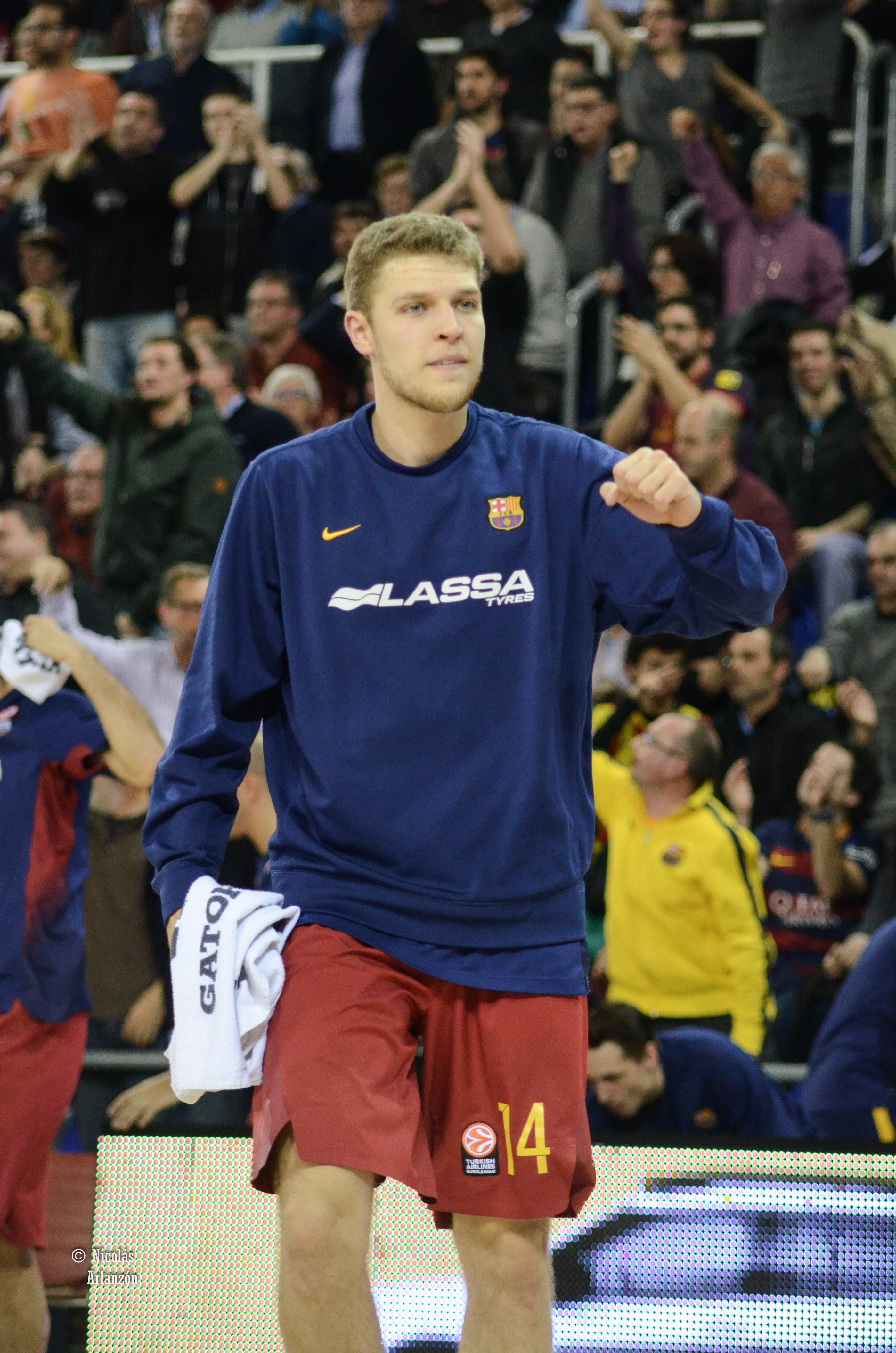 Aleksandar Vezenkov playing for Barcelona in an Euroleague match against CSKA Moscow on 12 March 2016